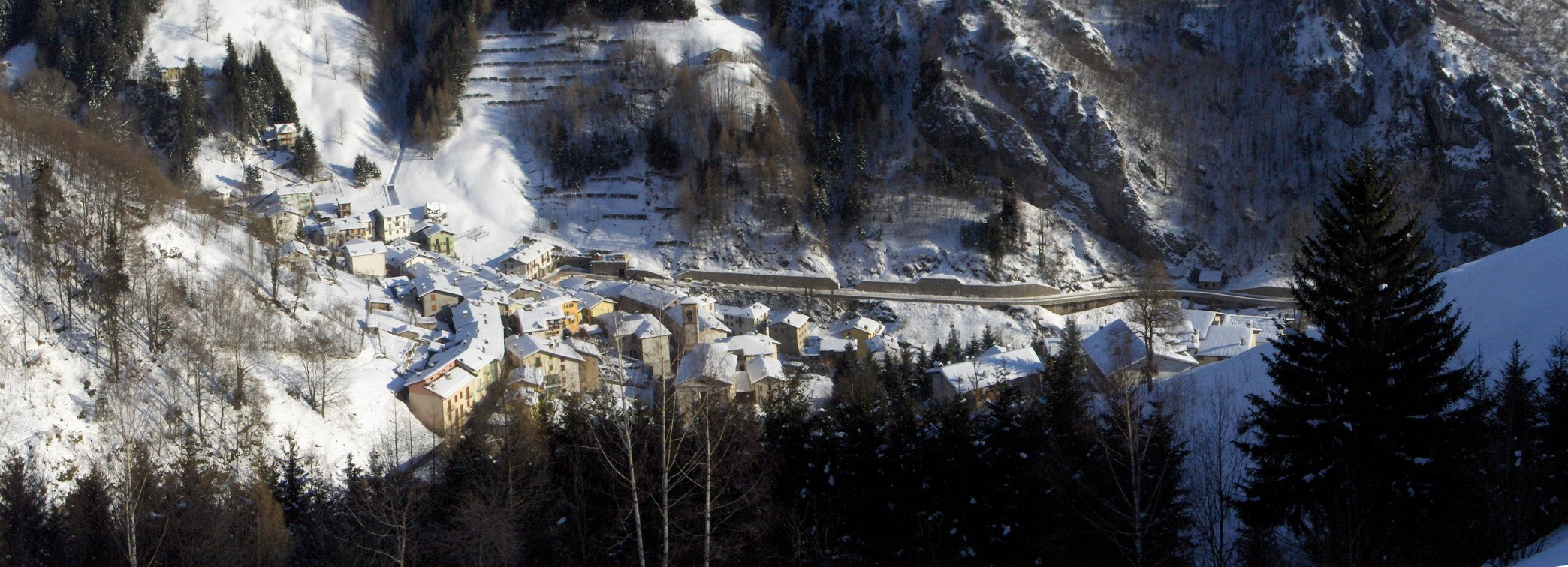 Ornica (BG), Lombardy, Italy - Winter view